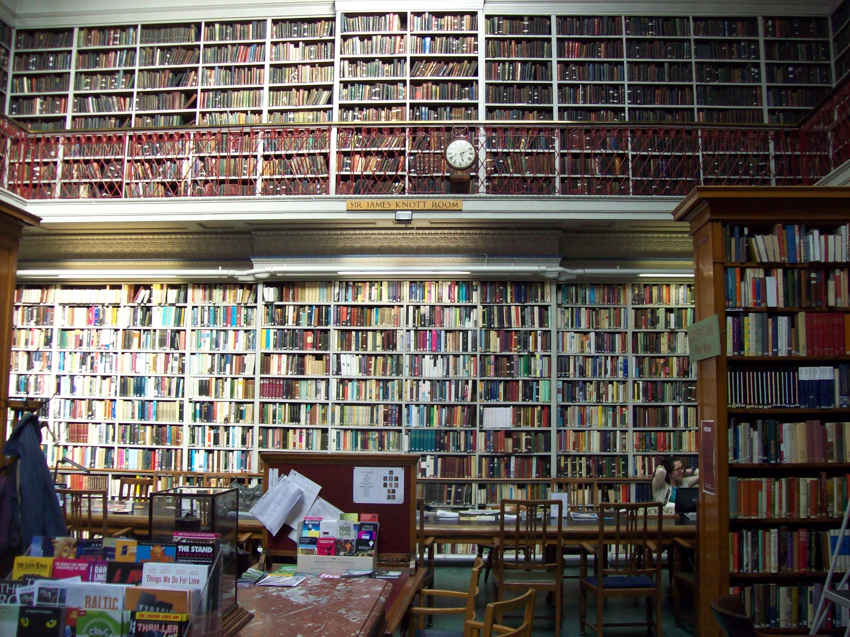 I recently had the pleasure of attending a series of afternoon lectures here in Newcastle-upon-Tyne's magnificent Literary & Philosophical Society (The Lit & Phil), on the theme of 'Romanticism And The Invention Of Mountaineering' Papers were presented by Professor Simon Bainbridge, Dr Jonathan Westaway and Dr Penelope Bradshaw. Some info from the library's website:- 'The Literary & Philosophical Society (Lit & Phil) is the largest independent library outside London, housing over 150,000 books. A wide selection of current fiction and non-fiction can be found alongside historical collections covering every field of interest. The music library is without equal in the North of England, including 8,000 CDs and 10,000 LPs. For more information, please access the link on the right hand side to the music library webpage. Our Grade II* listed building was opened in 1825 and the magnificent reading rooms remain largely unchanged. Our collection is coupled with an extensive set of periodicals, providing an exceptional resource for both general reader and academic researcher. In addition to the library, the Society hosts a wide range of events including book launches, concerts, lectures, readings and workshops that cover a variety of topics and issues. Both members and non-members are welcome to attend these events.' Sir James Knott, 1st Baronet, 31 January 1855-1934, was a shipping magnate (Prince Steam Shipping Company Ltd., and a Conservative Party politician in the north-east of England.